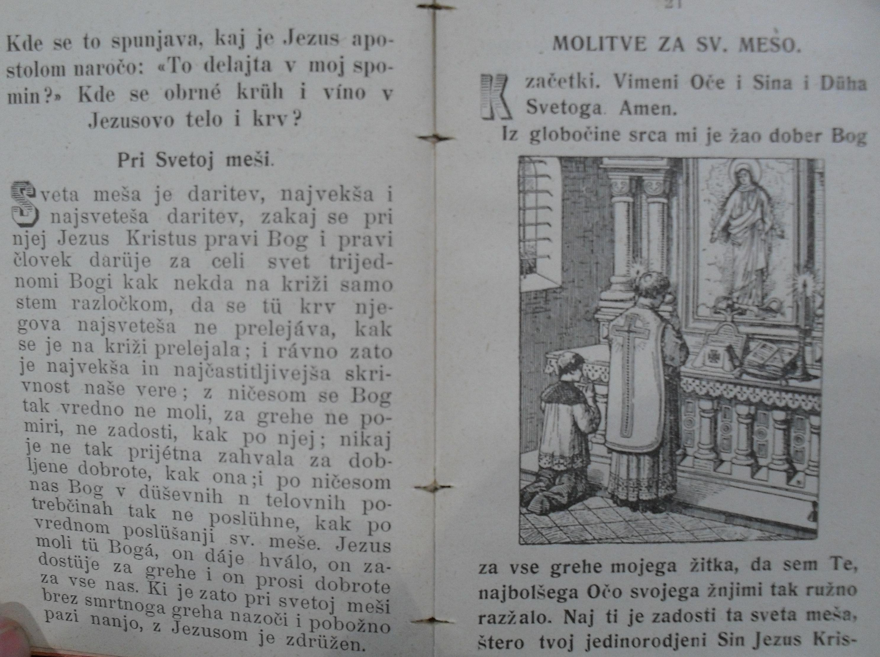 Molitev za sveto mešo (Pray in Holy mass), Hodi k oltarskomi svesti (1910)